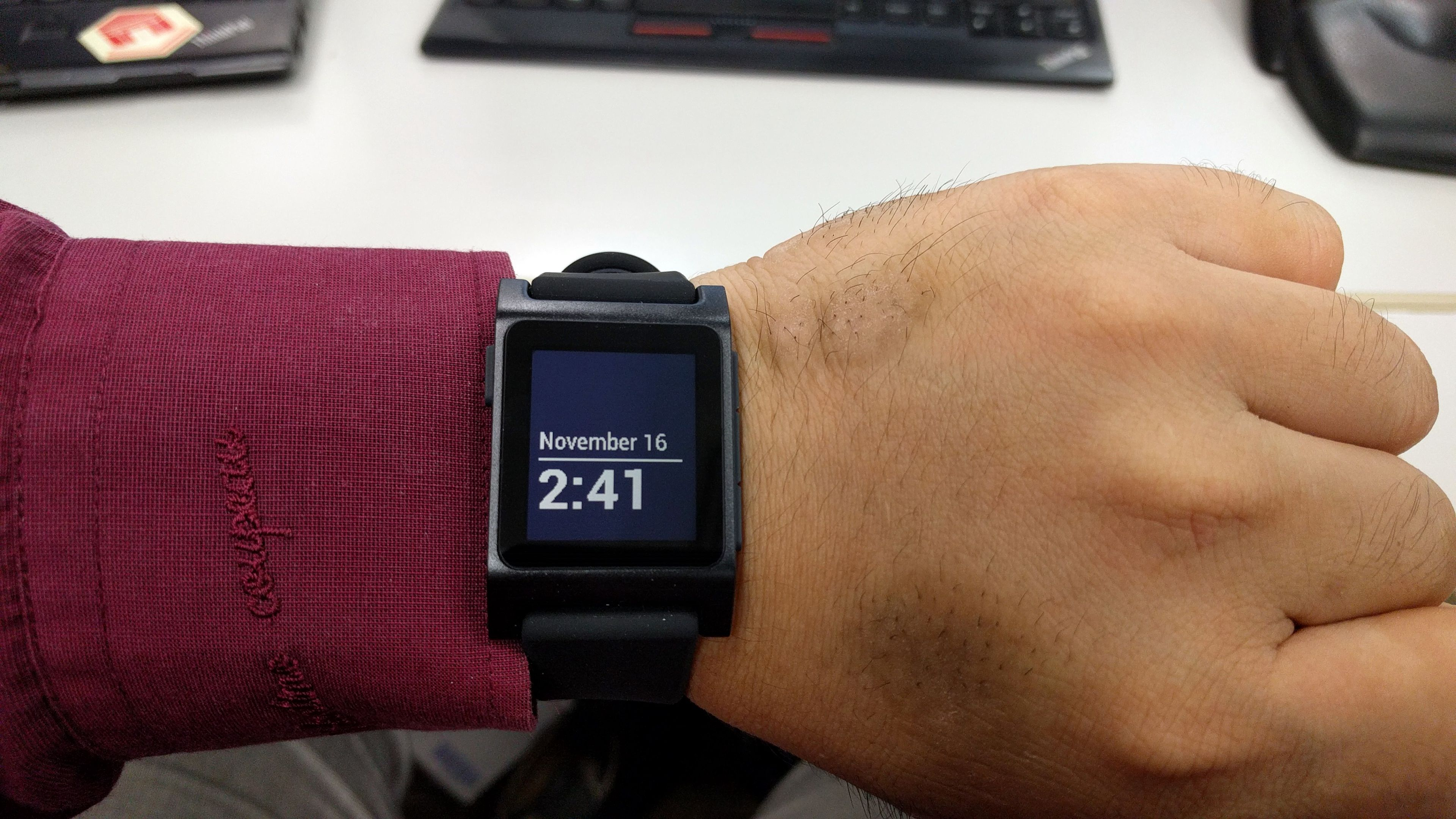 Pebble 2 Black with standard watchface and standard band.